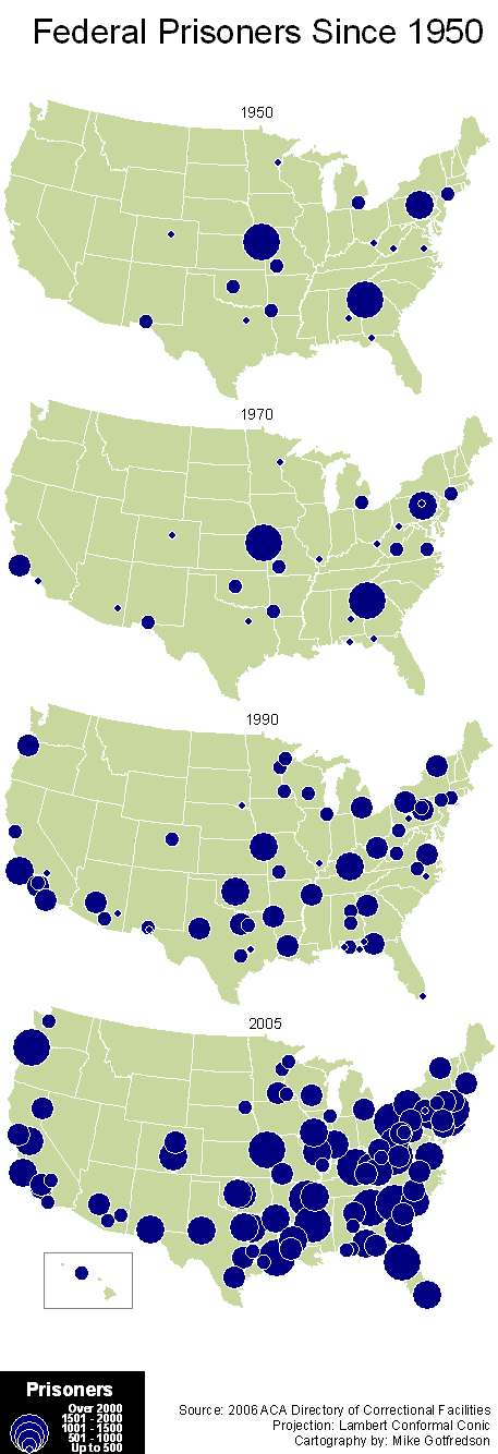 I made this map with data collected from the 2006 ACA Directory of Prisons